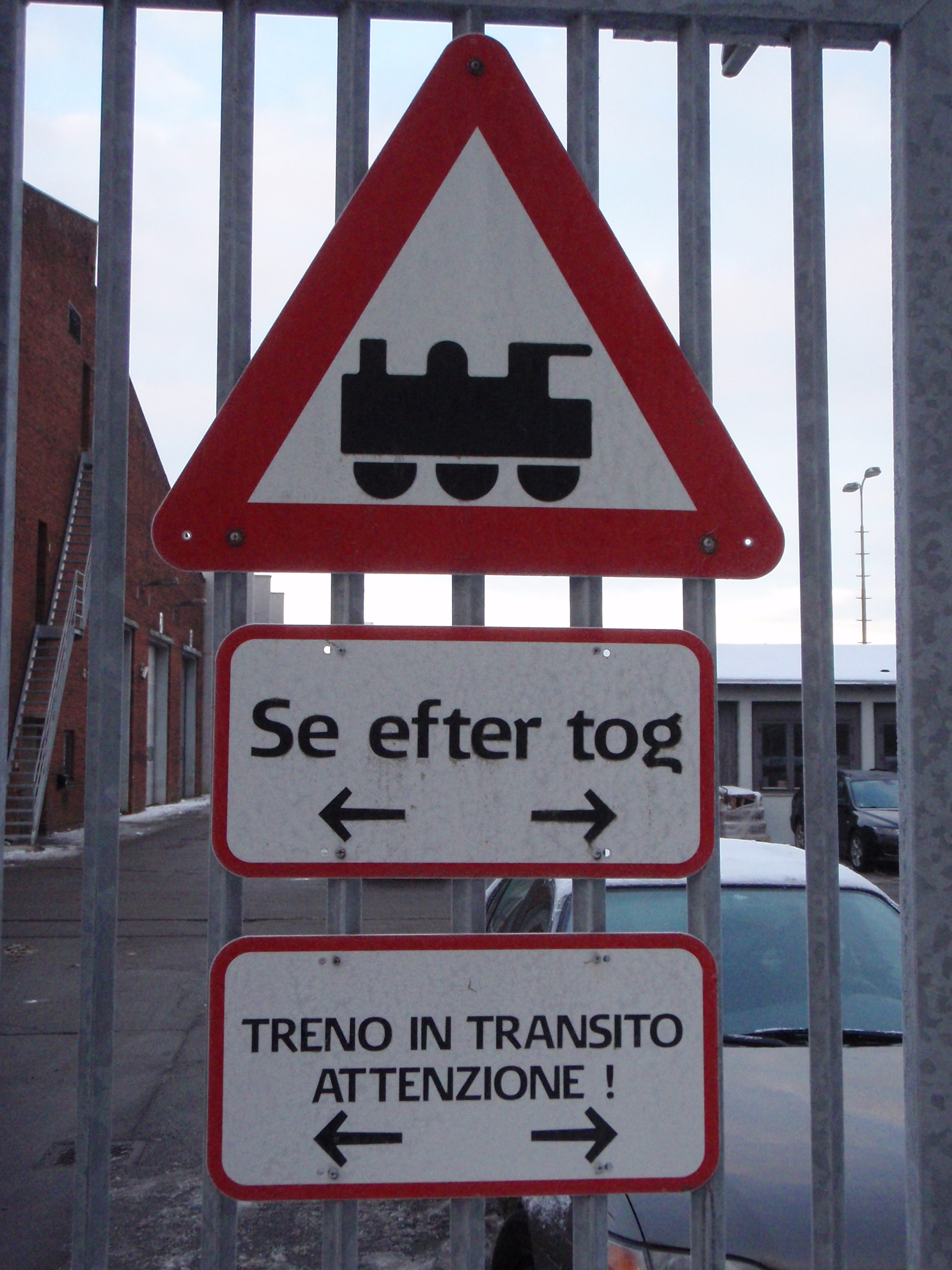 IC4 work shop in Augustenborggade in Aarhus - Signs in Danish and Italian